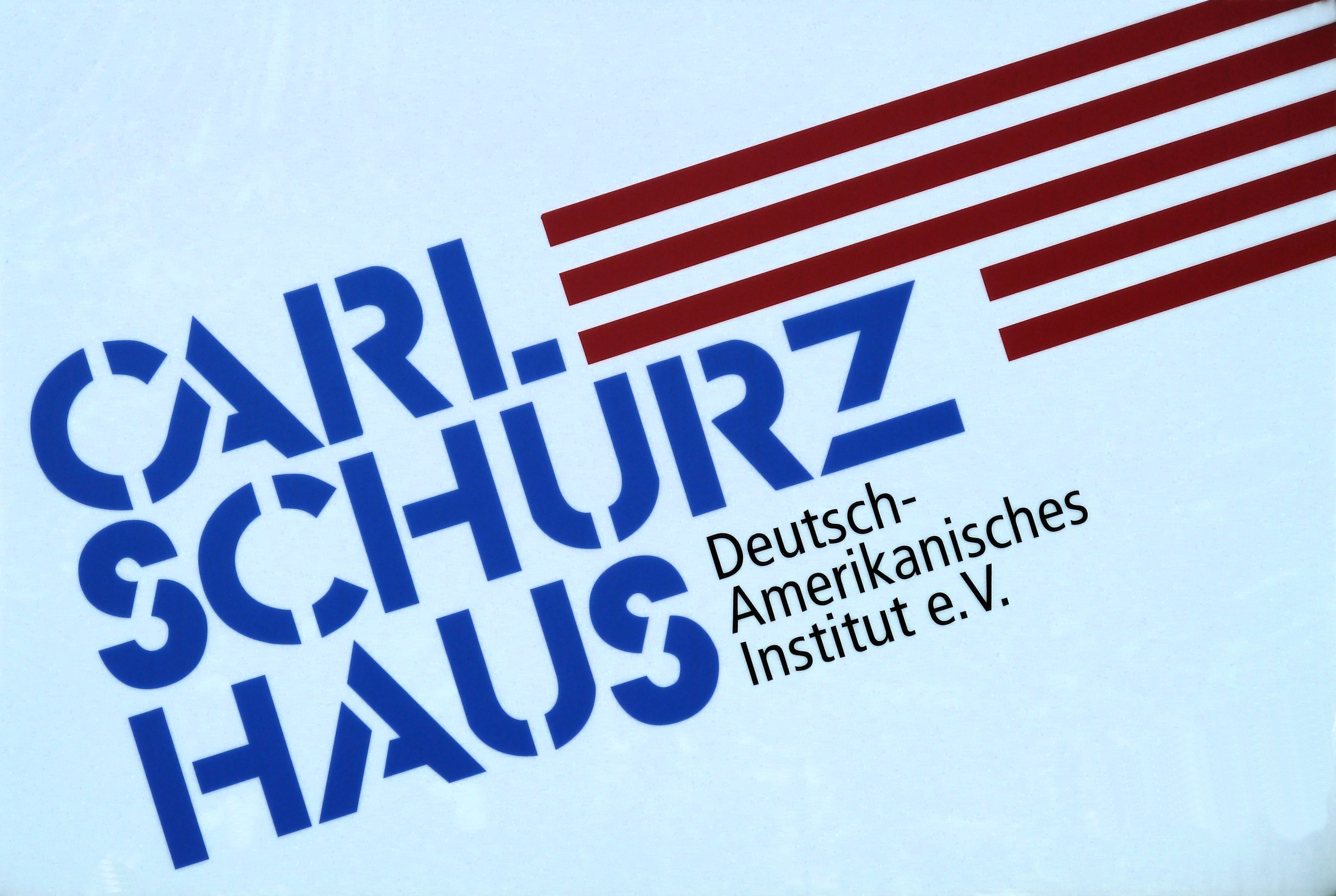 Logo of the Carl-Schurz-Haus in Freiburg, Germany